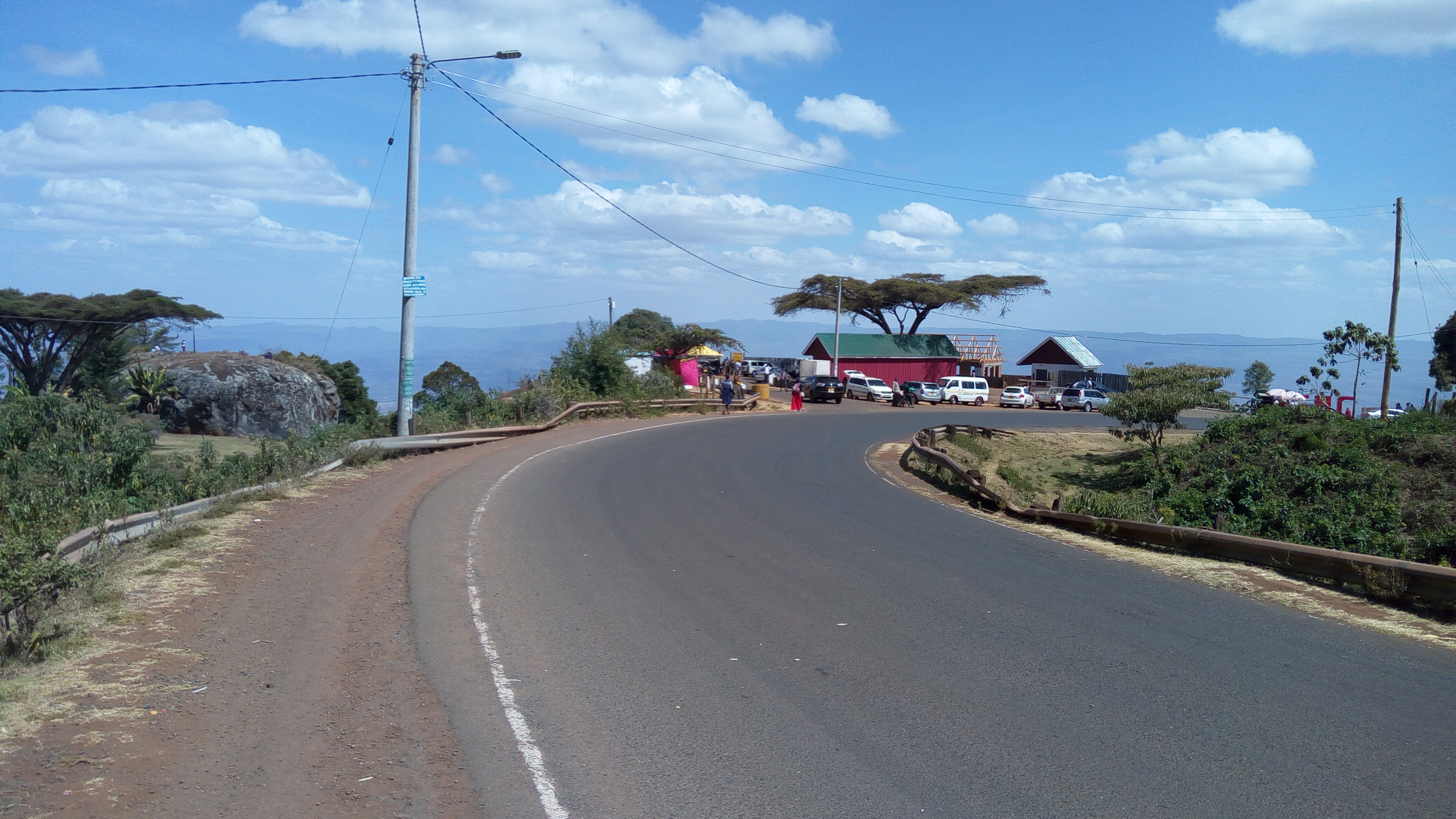 Iten view point place